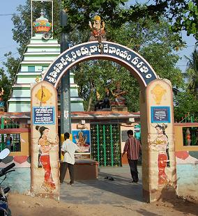 Sri Paata Paateswari Ammavaari Temple, Gurazala.